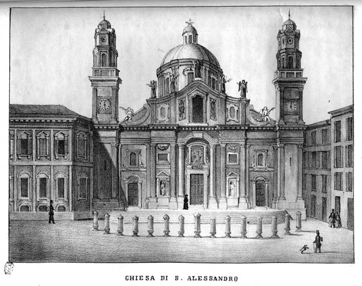 Milan - Sant'Alessandro in Zebedia church in the first decades of 19th century. Engraving.